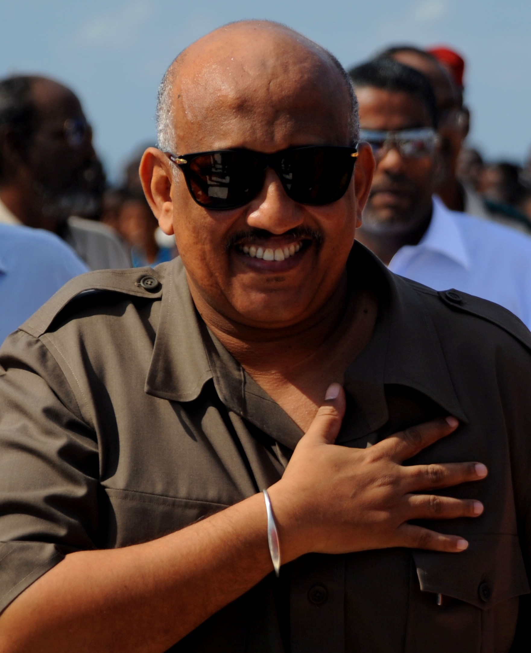 Prime Minister of Djibouti Dileita Mohamed Dileita speaks to a resident prior to the beginning of the Obock Pier Dedication ceremony in Obock, Djibouti, Jan. 14, 2008.